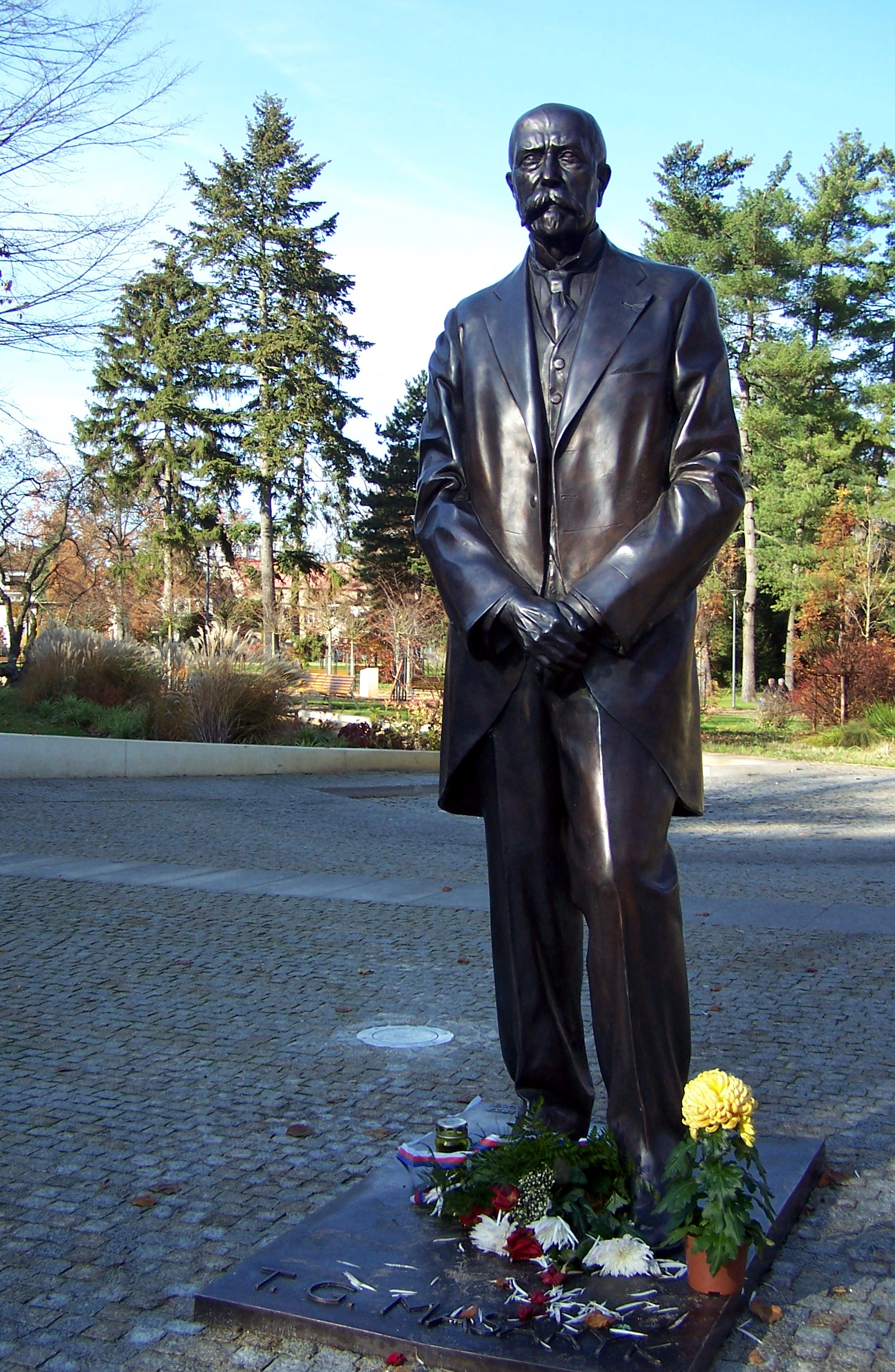 Statue of the president T. G. Masaryk in Poděbrady. Author is sculptor Otto Gutfreund.